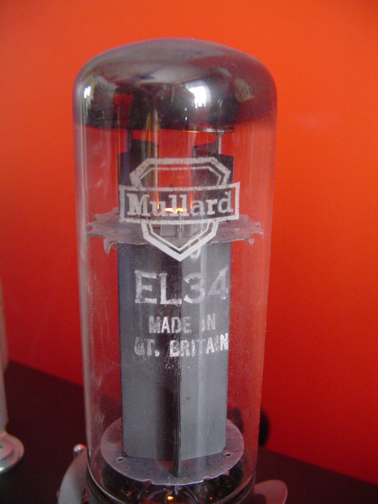 A Mullard EL34 in use in a Mesa/Boogie Single Rectifier guitar amplifier.